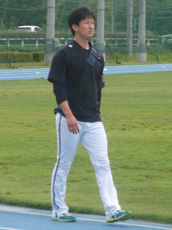 Daiki Toumei at Tokyo Yakult Swallows Toda Baseball Ground